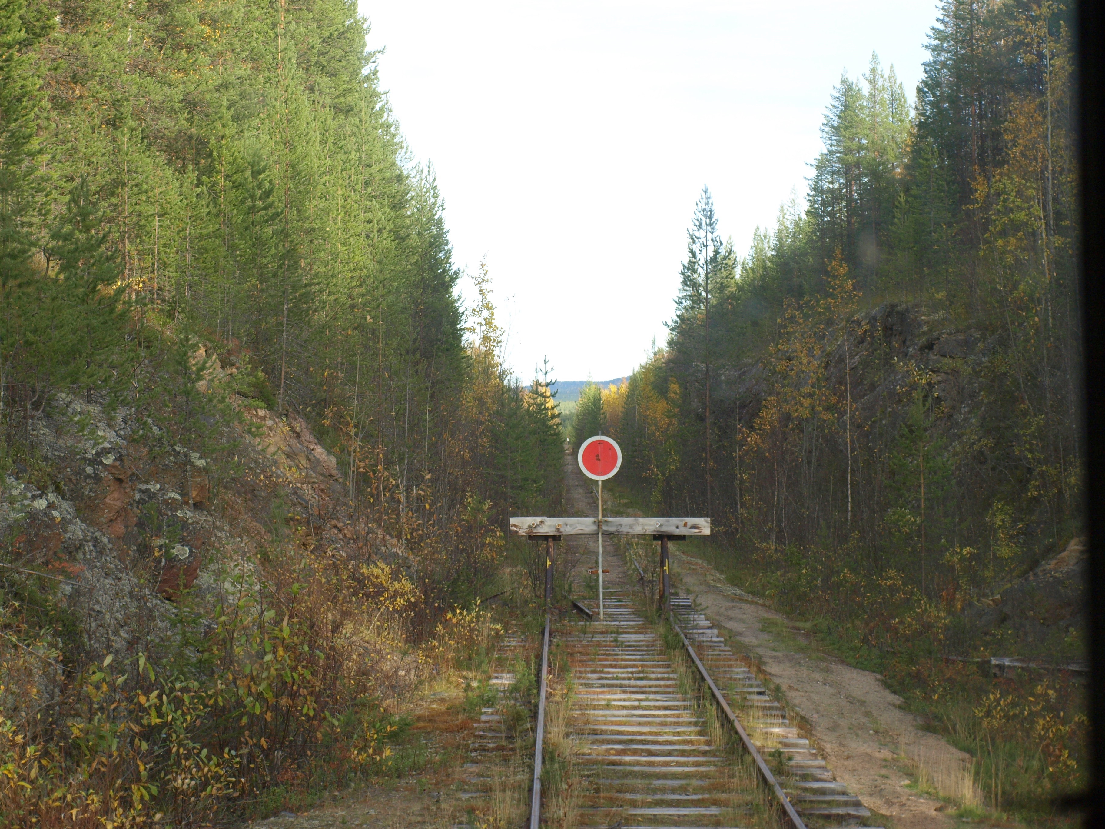 End of Laurila–Kelloselkä railway line in Kelloselkä, Salla, Finland